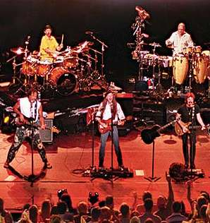 Self-taken of Doobie Brothers concert in Melbourne, Australia. They rocked the joint.